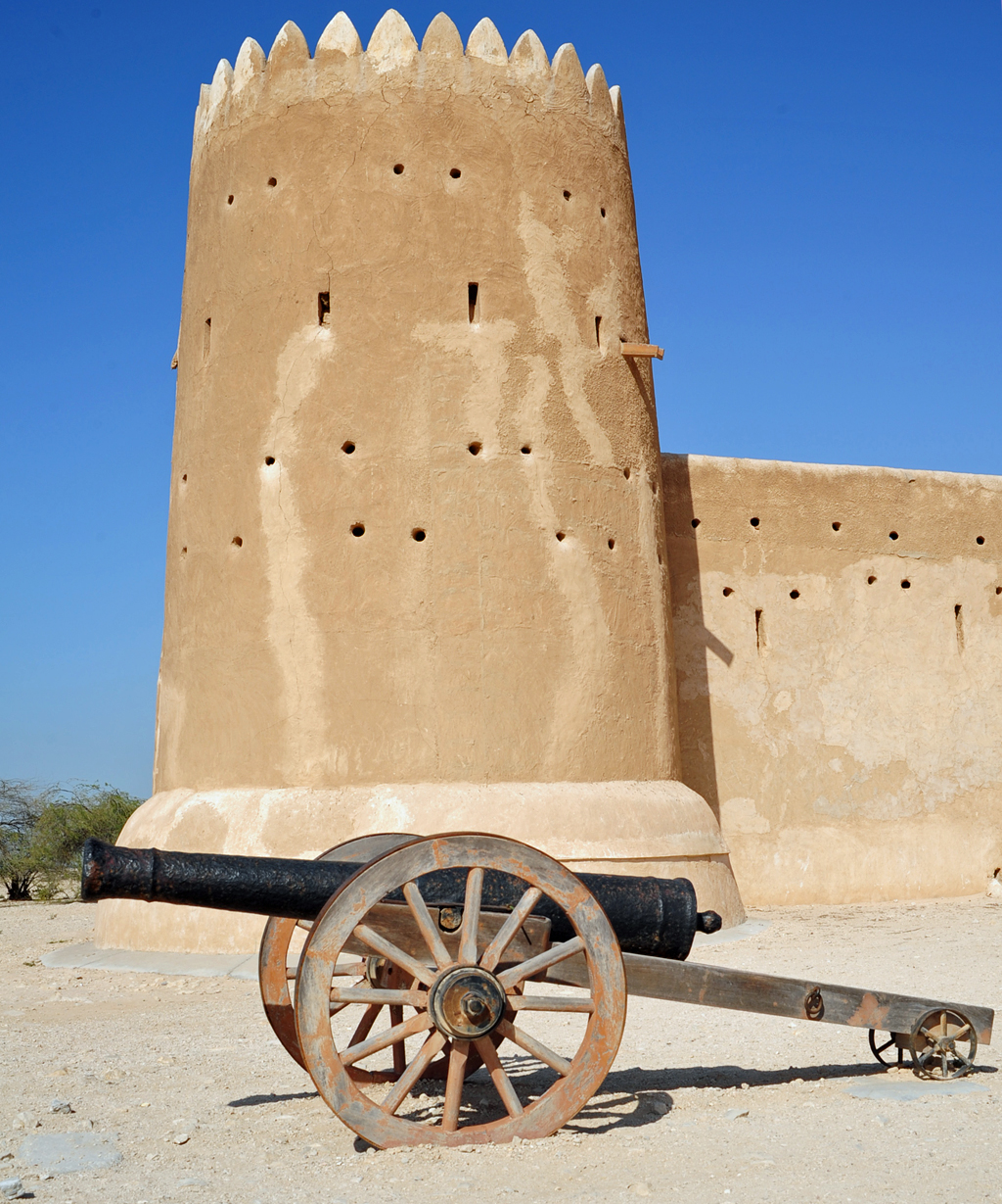 This old fort is a 100 or so kms northwest of Doha. It reminds me of the Foreign Legion forts I read about in Beau Geste. I don't think the Foregn Legion were ever in Qatar and this fort was built in 1938, so that puts paid to that!